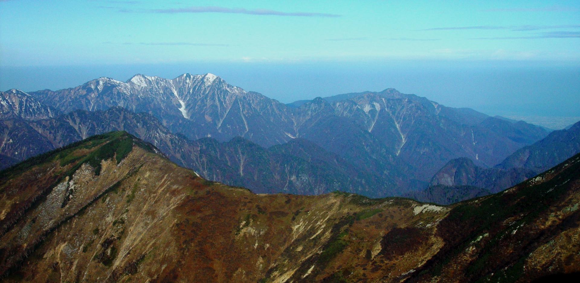 Kekachi Mountains, Mount Koma and Mount Sō seen from Tsumetaike hut in Japan.